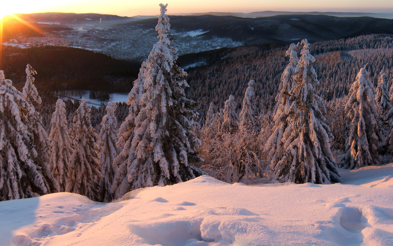 Sunrise on the mountain Ruppberg near Zella-Mehlis (Thuringian Forest, Germany)